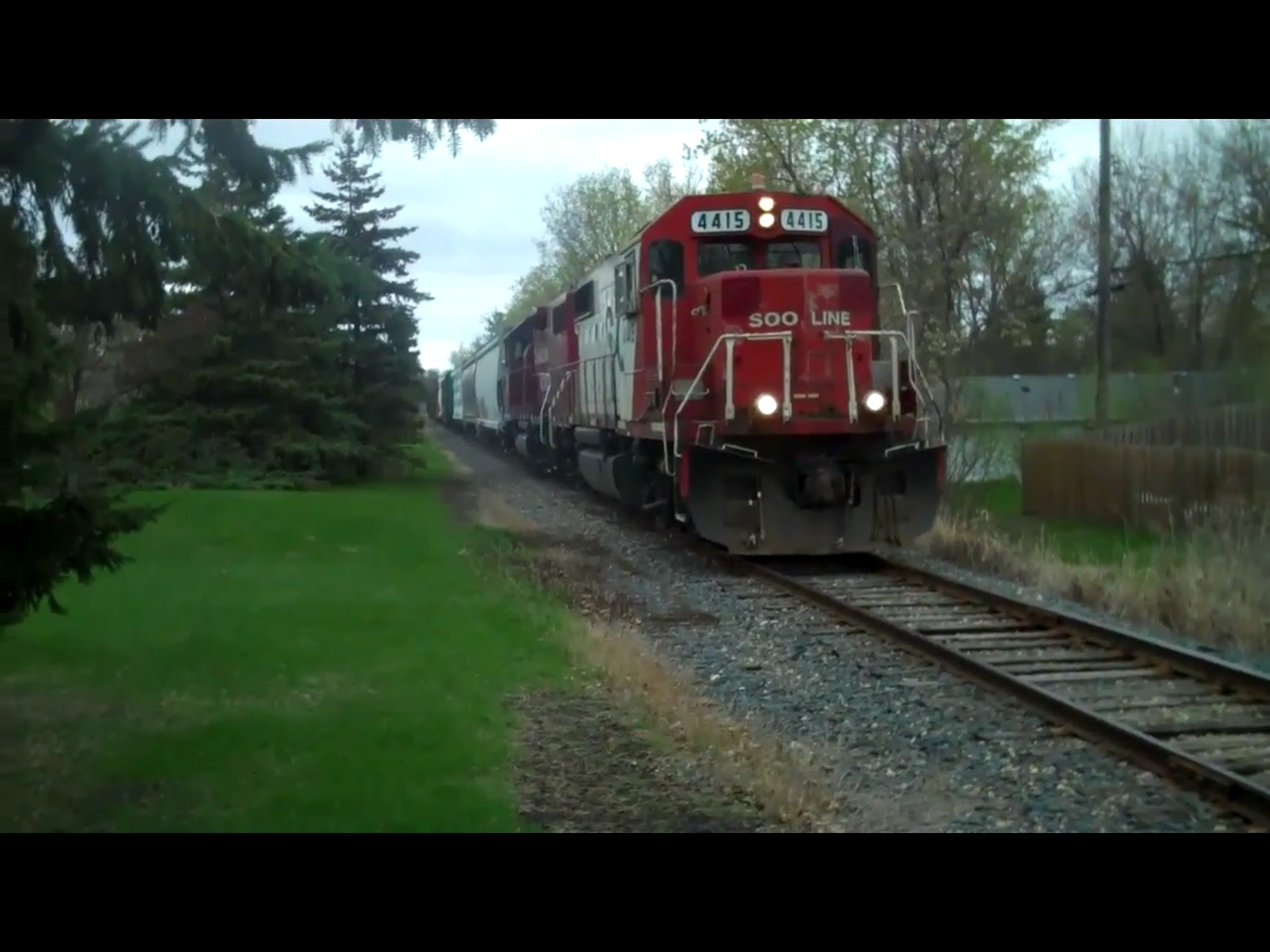 A southbound CP train on the MN&S Spur in Edina, Minnesota